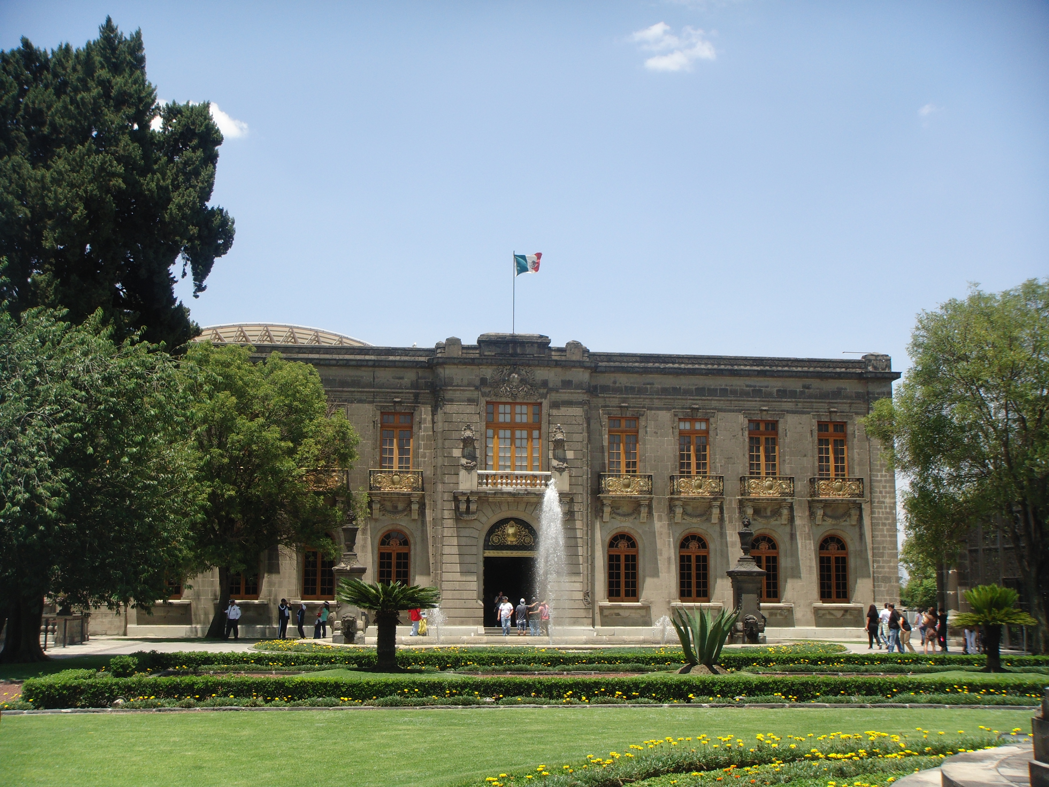 Chapultepec Castle: February 3, 1939, President Lázaro Cárdenas decreed a law that established Chapultepec Castle as the seat of the National Museum of History